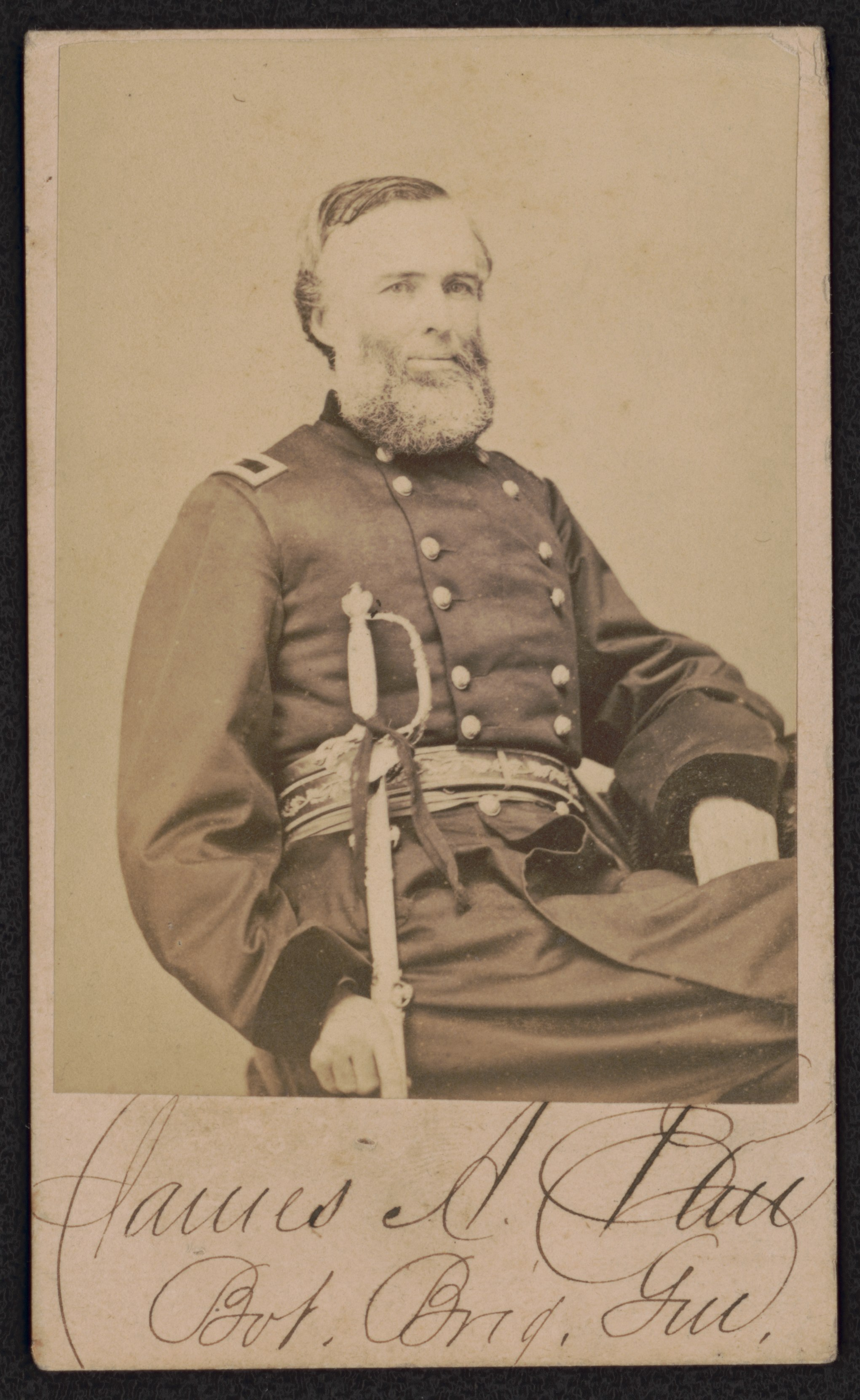 Title: Brigadier General James Adams Ekin of 12th Pennsylvania Infantry Regiment, in Honor Guard uniform with sword] / S.M. Fassett's New Gallery, 114 & 116 South Clark St., Chicago Abstract/medium: 1 photograph : albumen print on card mount ; mount 10 x 6 cm (carte de visite format)